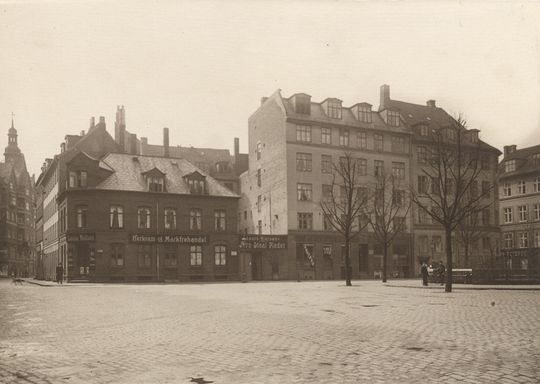 The Buildings on Hauser Plads that disappeared when the new Central Library (Biblioteksgården) was built in Copenhagen, Denmark